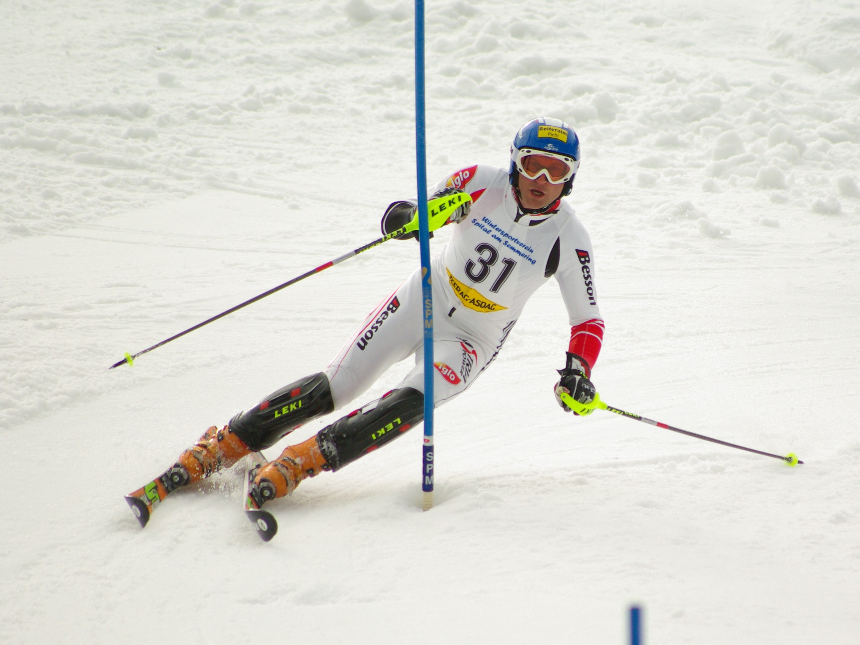 Austrian alpine skier Christoph Kornberger during the slalom run of the FIS super combined in Spital am Semmering, Austria on 11 March 2008.